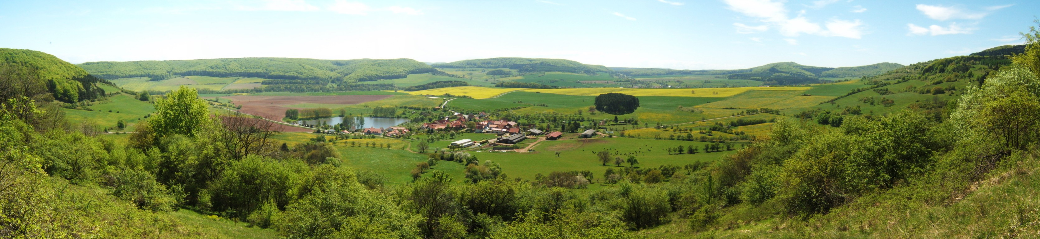 Panorama view to Seeba (Thuringia) and the Herpf valley